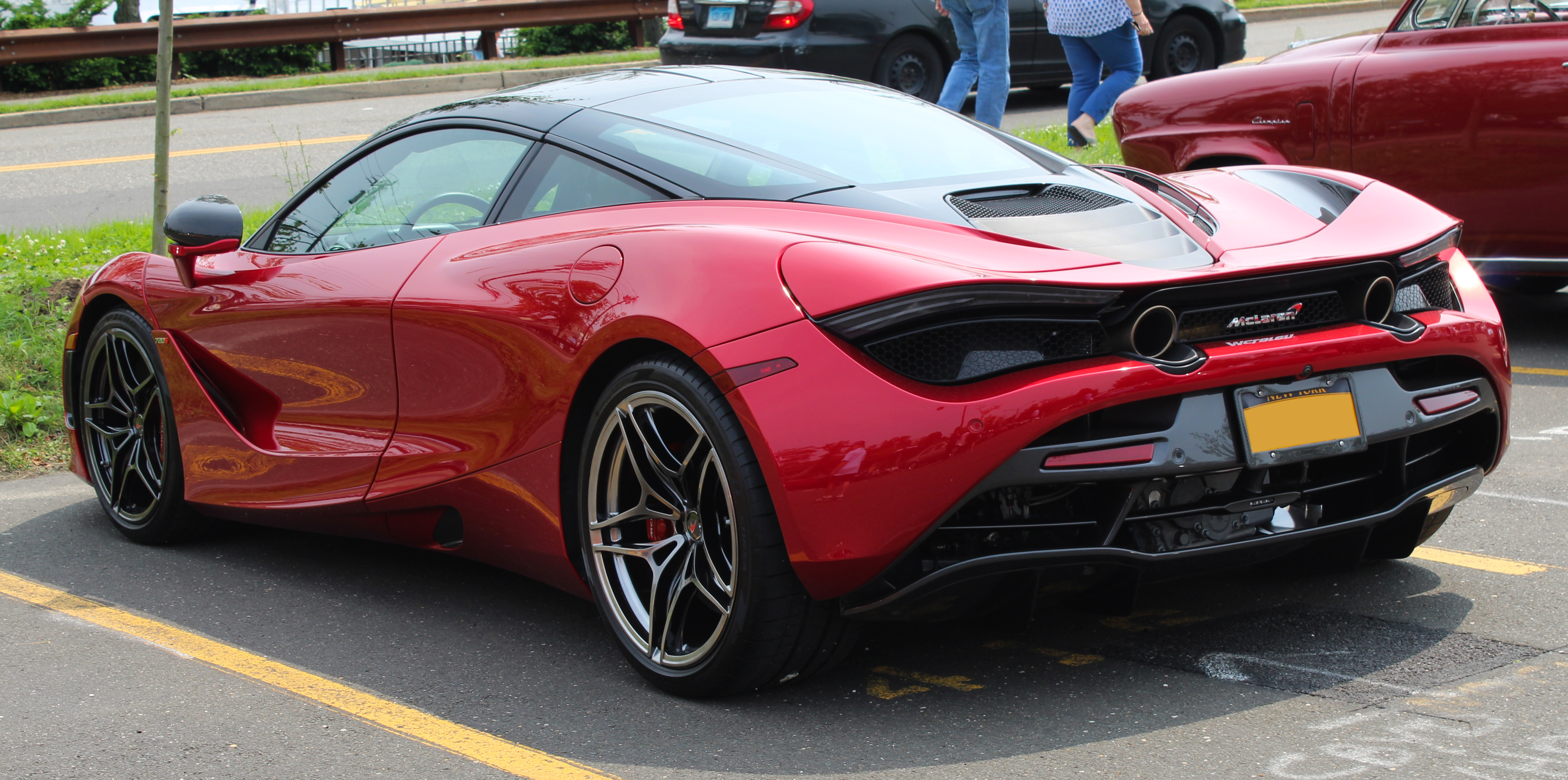 A 2018 McLaren 720S photographed in Greenwich Concours d'Elégance Hagerty parking lot, Connecticut, USA